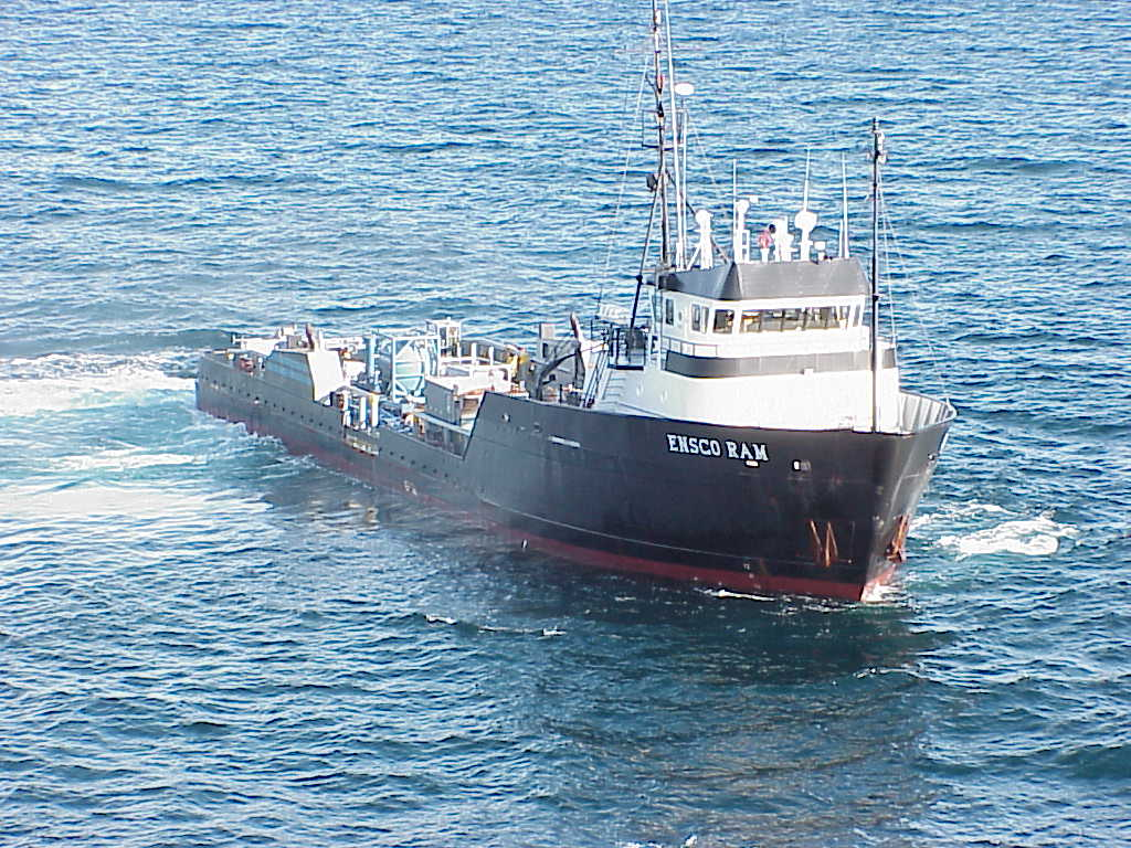 Ensco Ram: platform supply vessel.